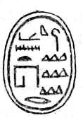 Drawing of a small scarab of the hyksos ruler Anather: "Heqa-Khasut Anather" - "Lord of foreign lands (Hyksos), Anather". Steatite, maybe from Tell Basta (Bubastis). This scarabs is the only attestation for this ruler and, according to Fraser and Gauthier, is/was part of the Fraser collection.